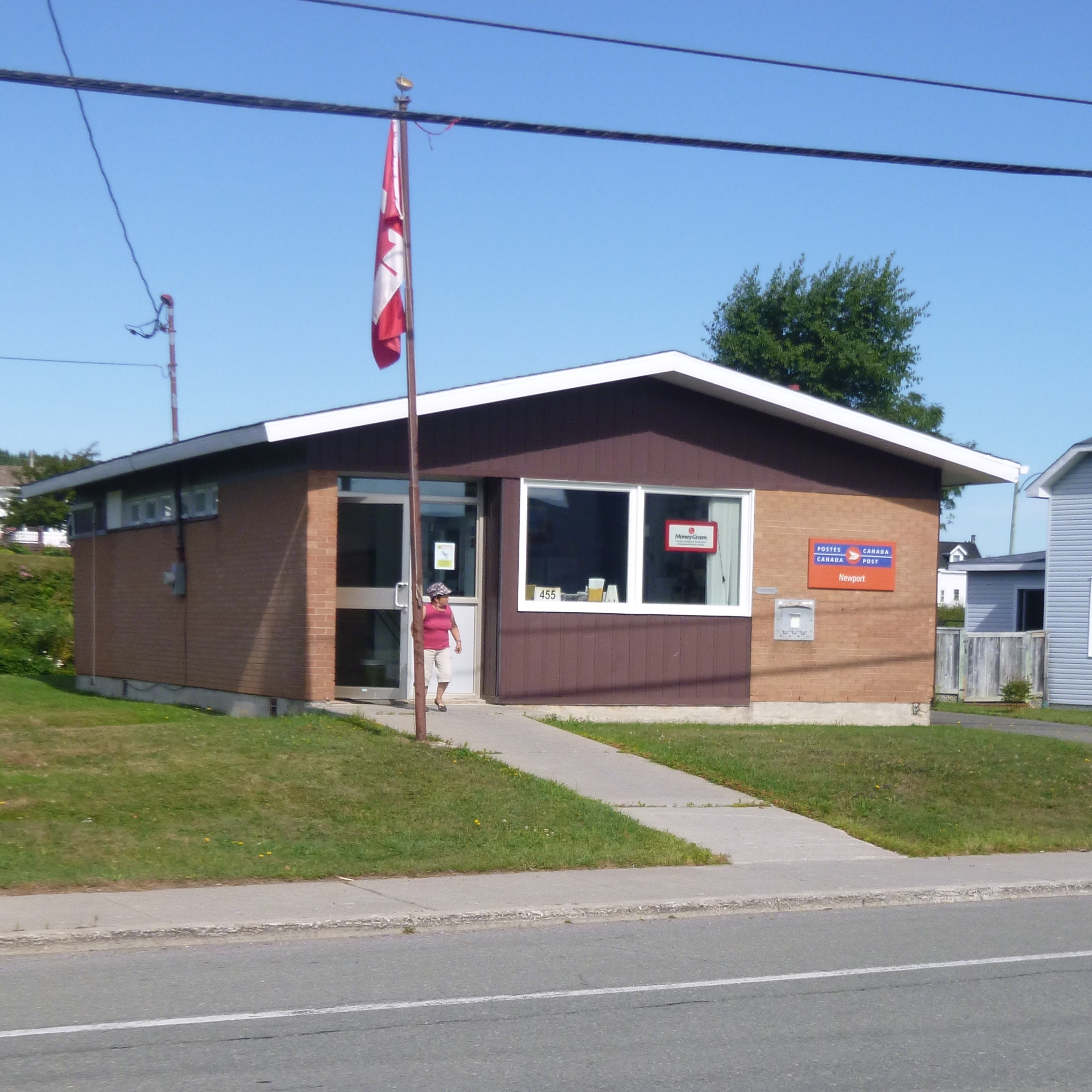 Newport, Quebec Post Office building